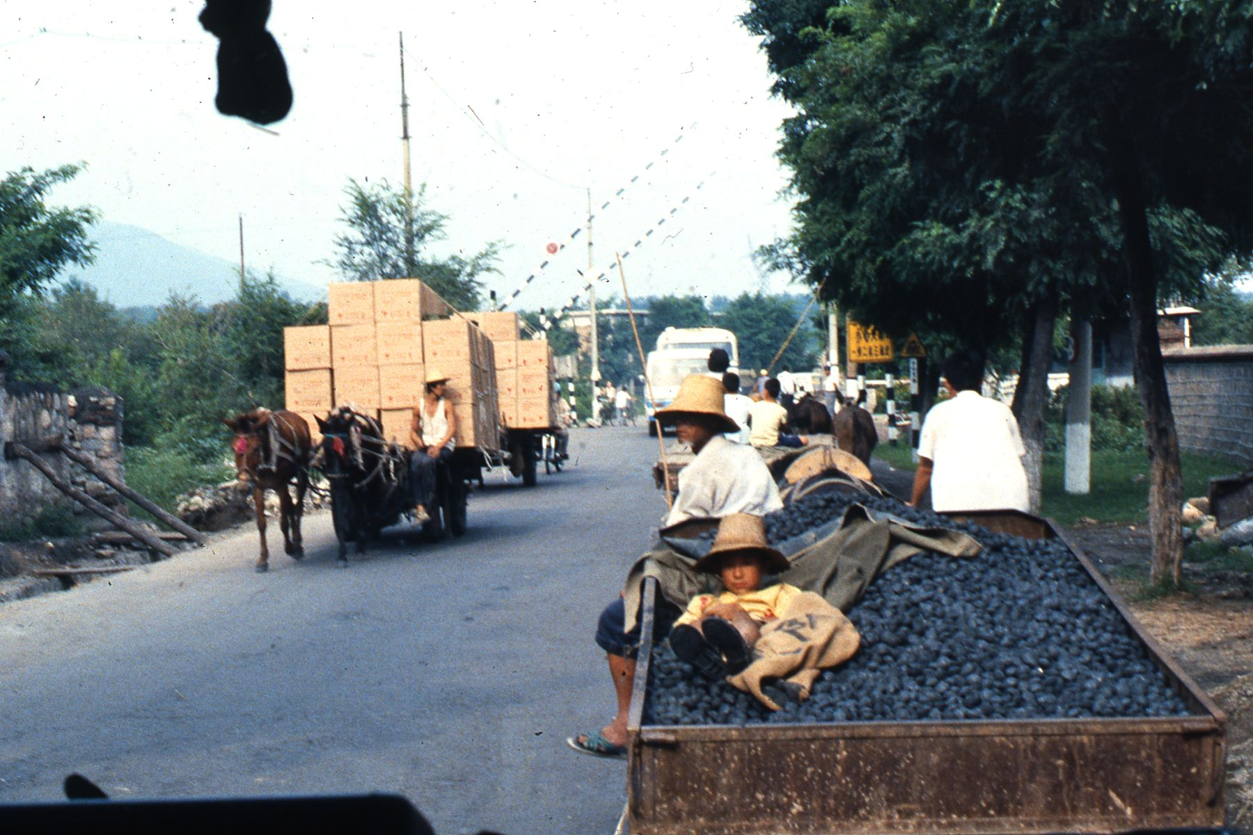 Horse-drawn conveyances bearing goods on a Chinese road, 1987. People lying or sitting on a load of coal. History of transport in China. Other information Photo by George Garrigues.